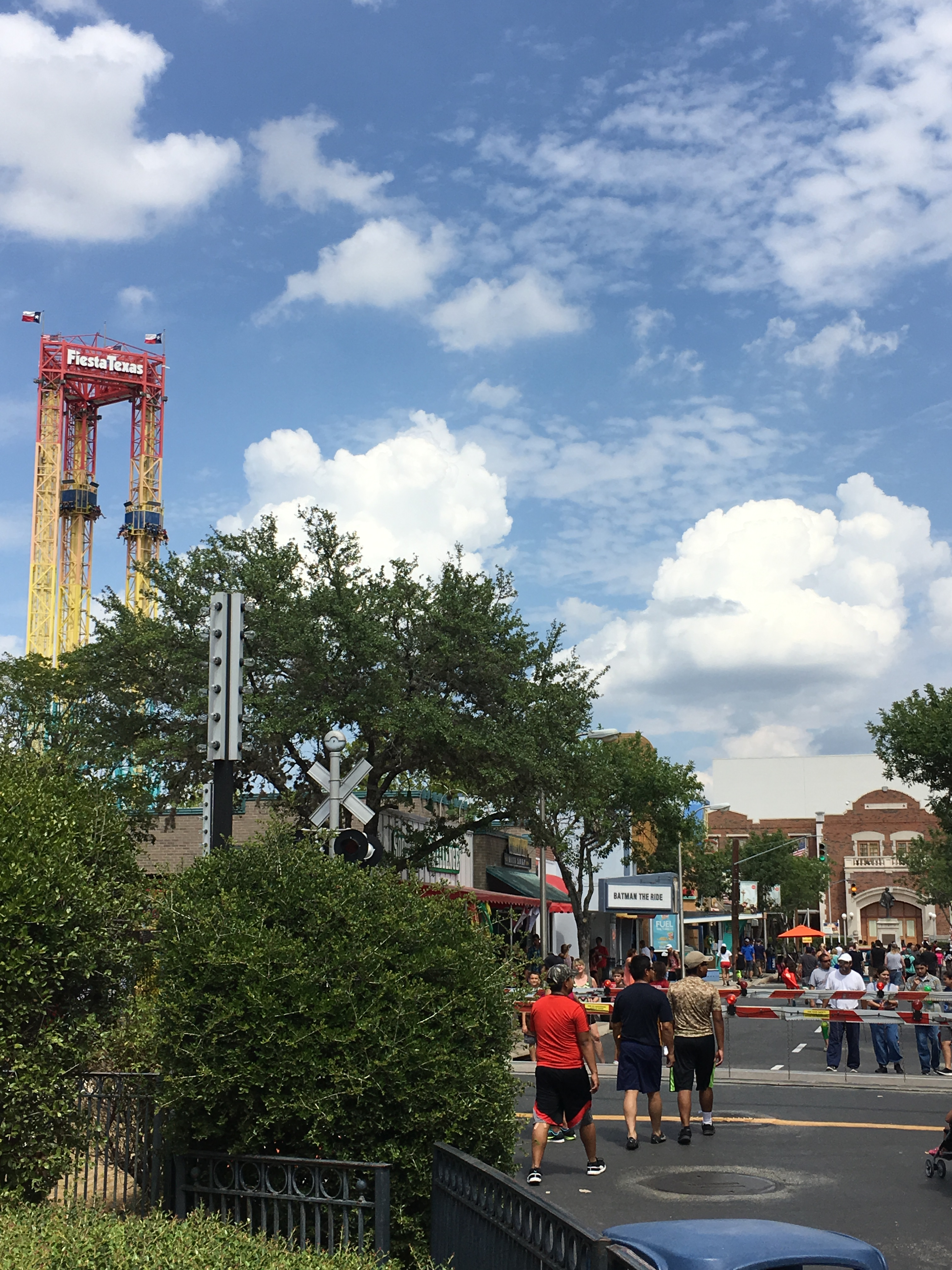 One of the many entry ways to Rockville at Six Flags Fiesta Texas.